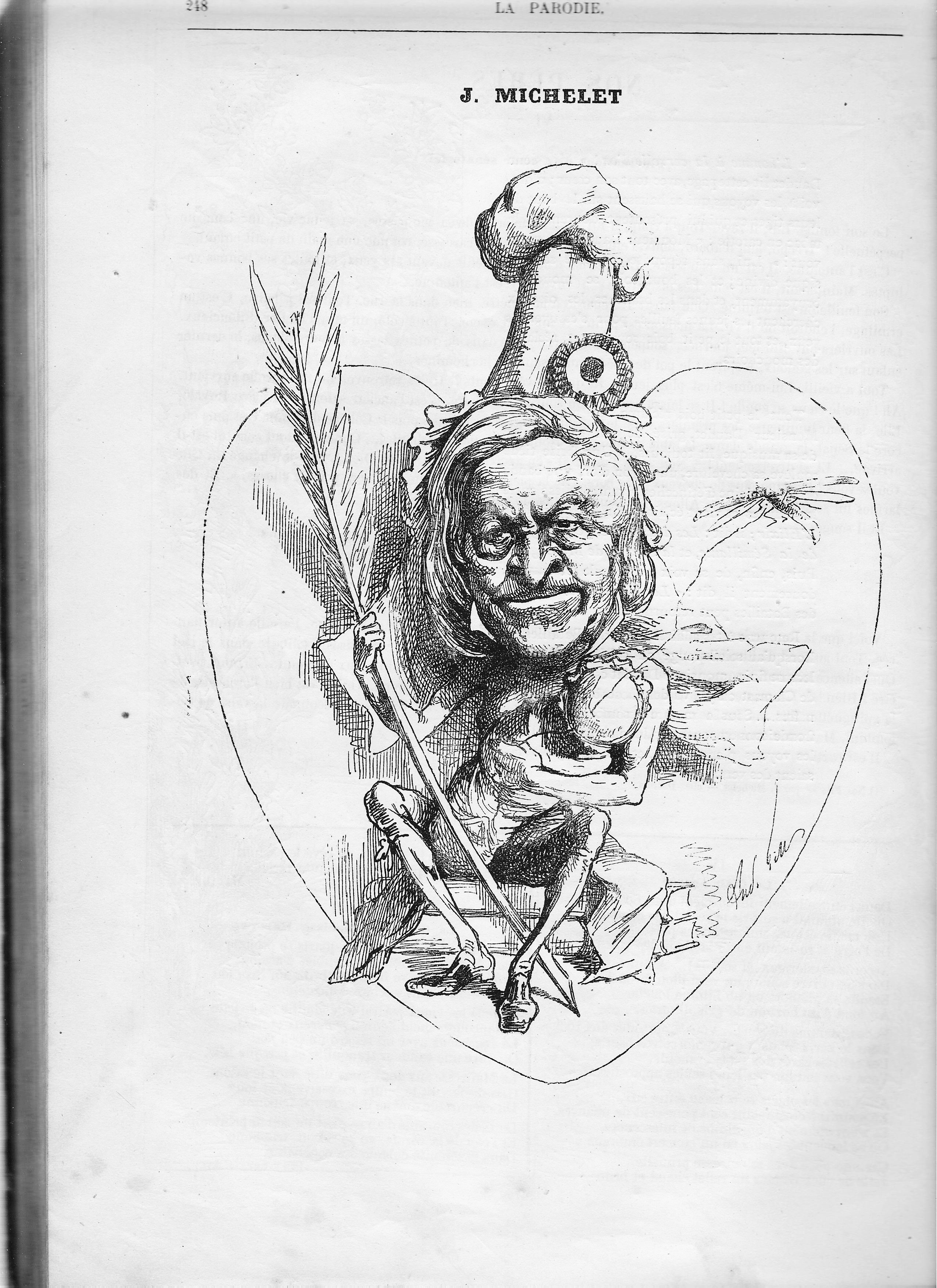 Jules Michelet vu par André Gill, La Parodie 1869.